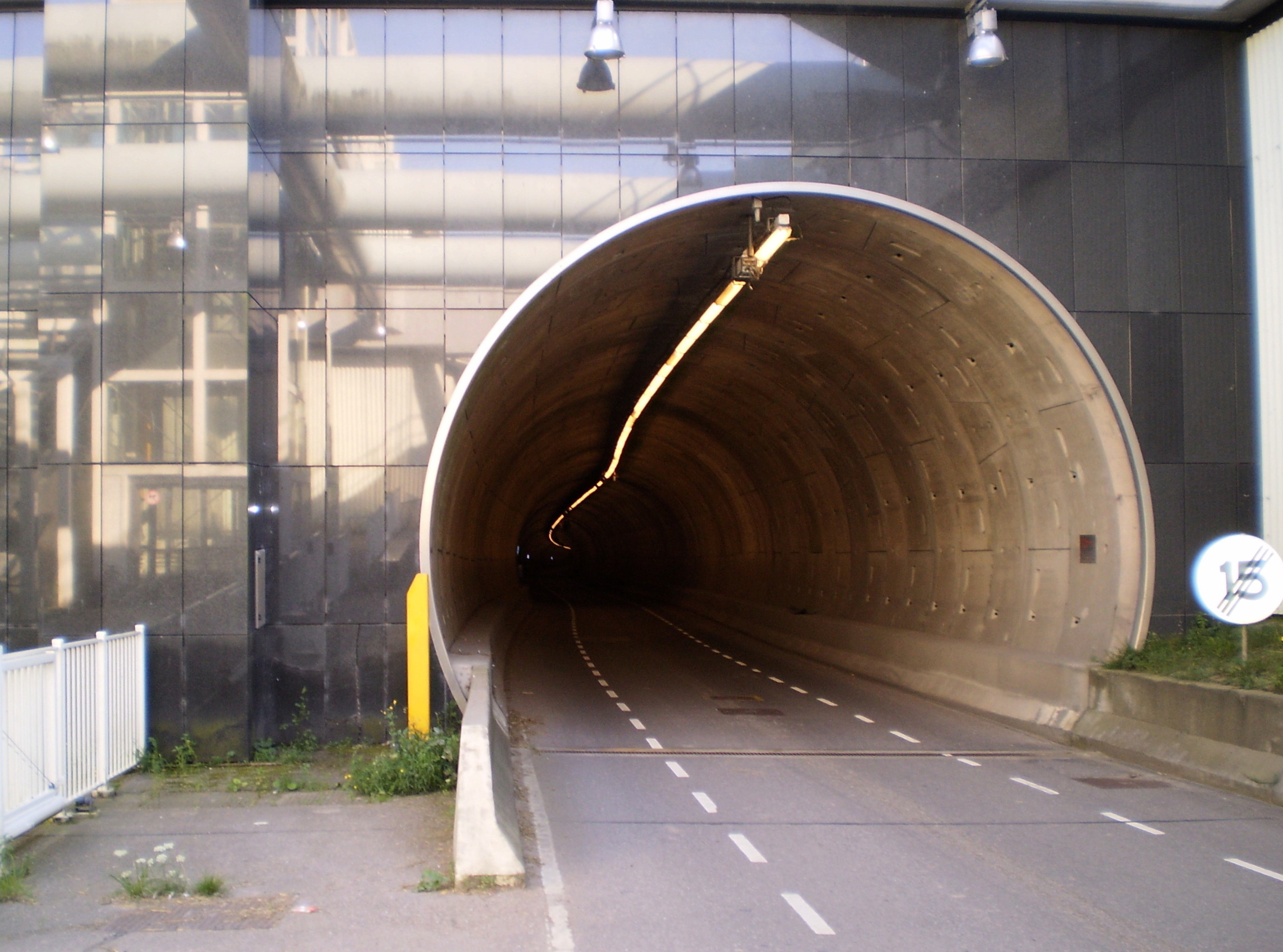 Heinenoordtunnel, Tunnelpad (low-velocity automobile tunnel, northside)